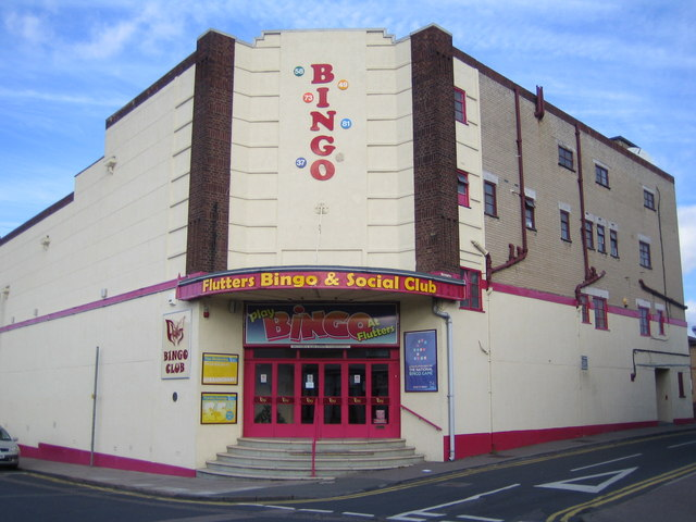 Biggleswade: Flutters Bingo & Social Club This was formerly the Regal Cinema that was opened on 27 July 1936 by the comedy film star Will Hay. It seated 744 patrons but closed as a cinema and reopened as a bingo hall in 1976. It is located on Station Road at its junction with Bonds Lane. There are also Flutters Bingo Halls in Rushden, Hinkley, and Coalville, apparently...